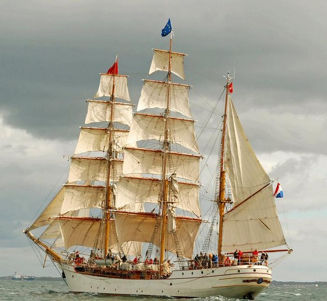 Tall ships, Belfast Lough 2009 (15) The Europa, a barque of 56 metres, built in 1911, with 13,400 sq ft of sail